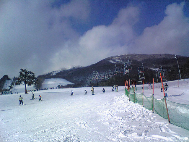 Inawashiro Ski area